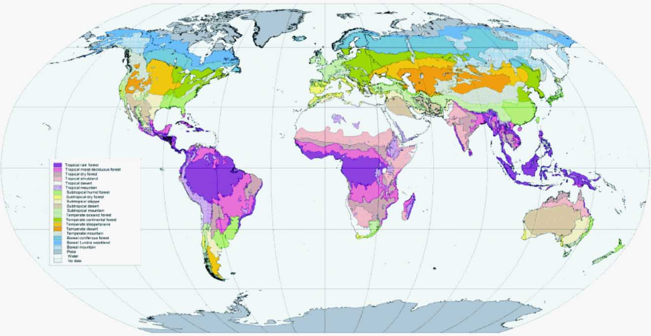 A map of world biomes from by an unknown ecologist. Useful map of biomes and ecological zones